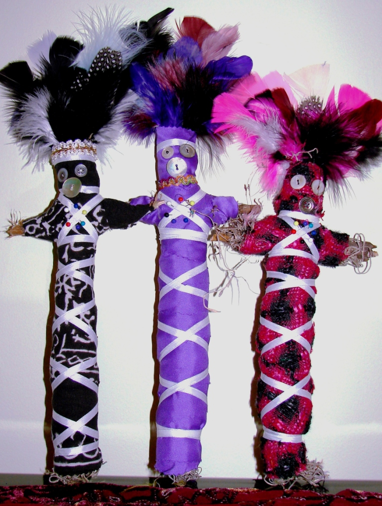 New Orleans Voodoo Dolls